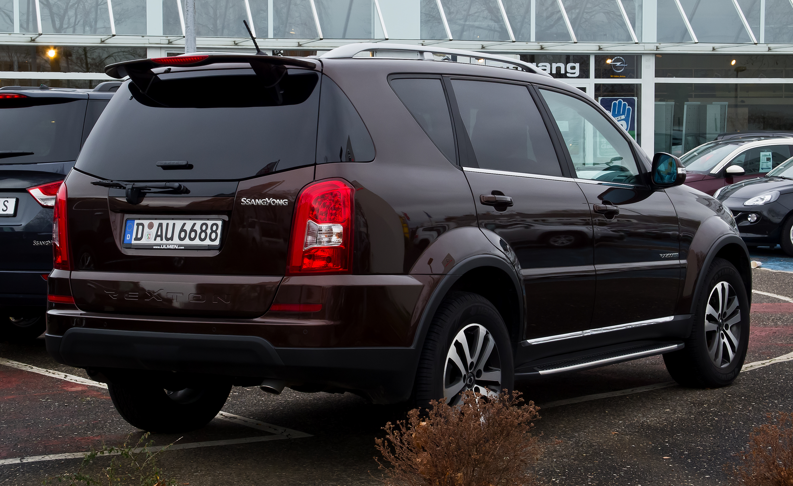 SsangYong Rexton W RX200e-XDi Sapphire (2. Facelift)